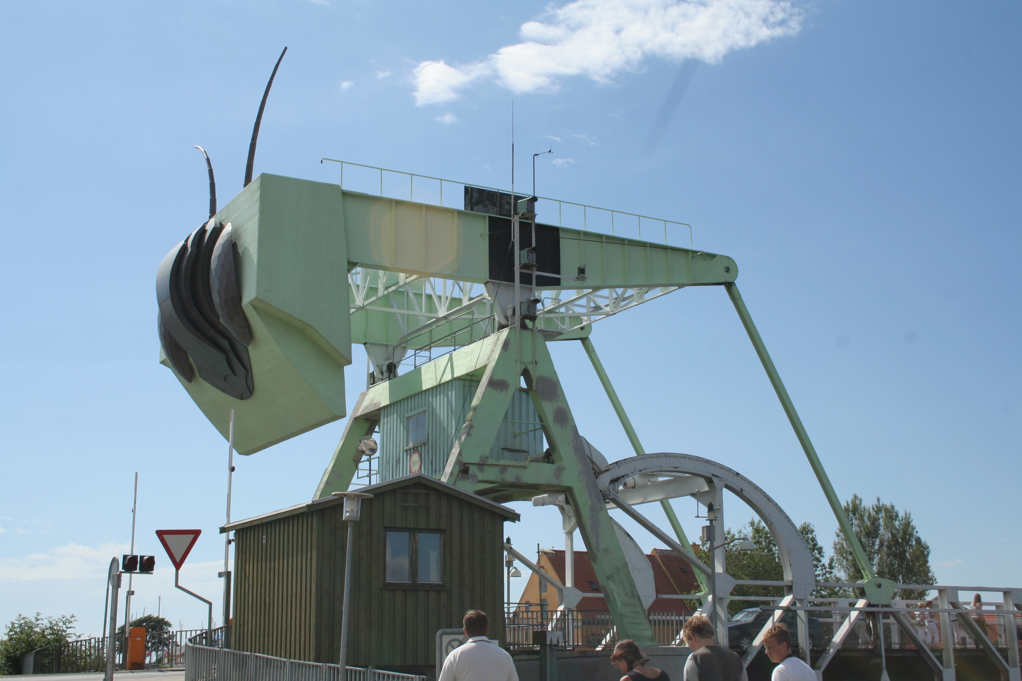 Bridge between the island Enø and Karrebæksminde.